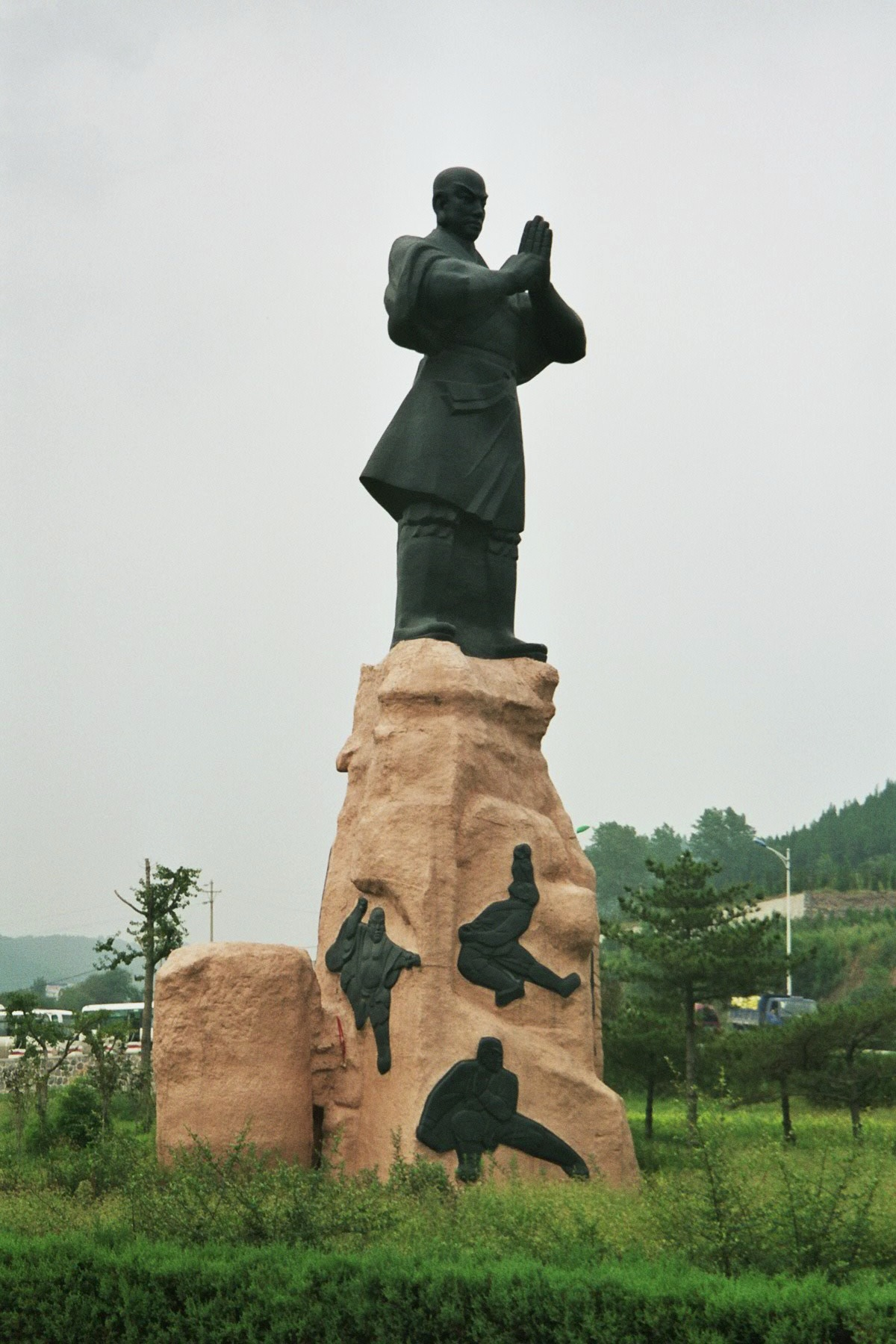 Statue in Shaolin Monastery, in september 2006.